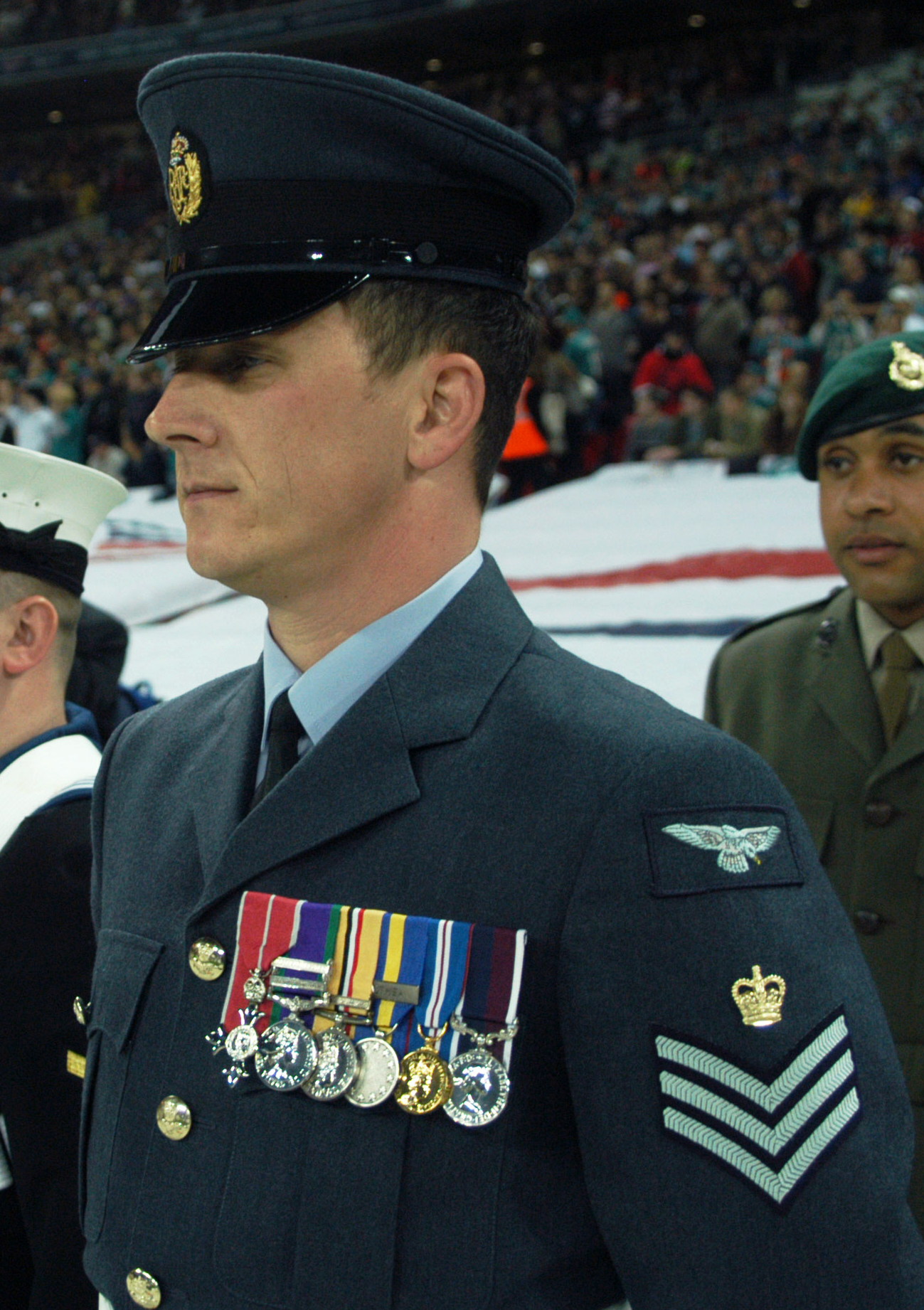 Royal Air Force Flight Sergeant on parade at Wembley Stadium for the first ever NFL regular season game outside the United States